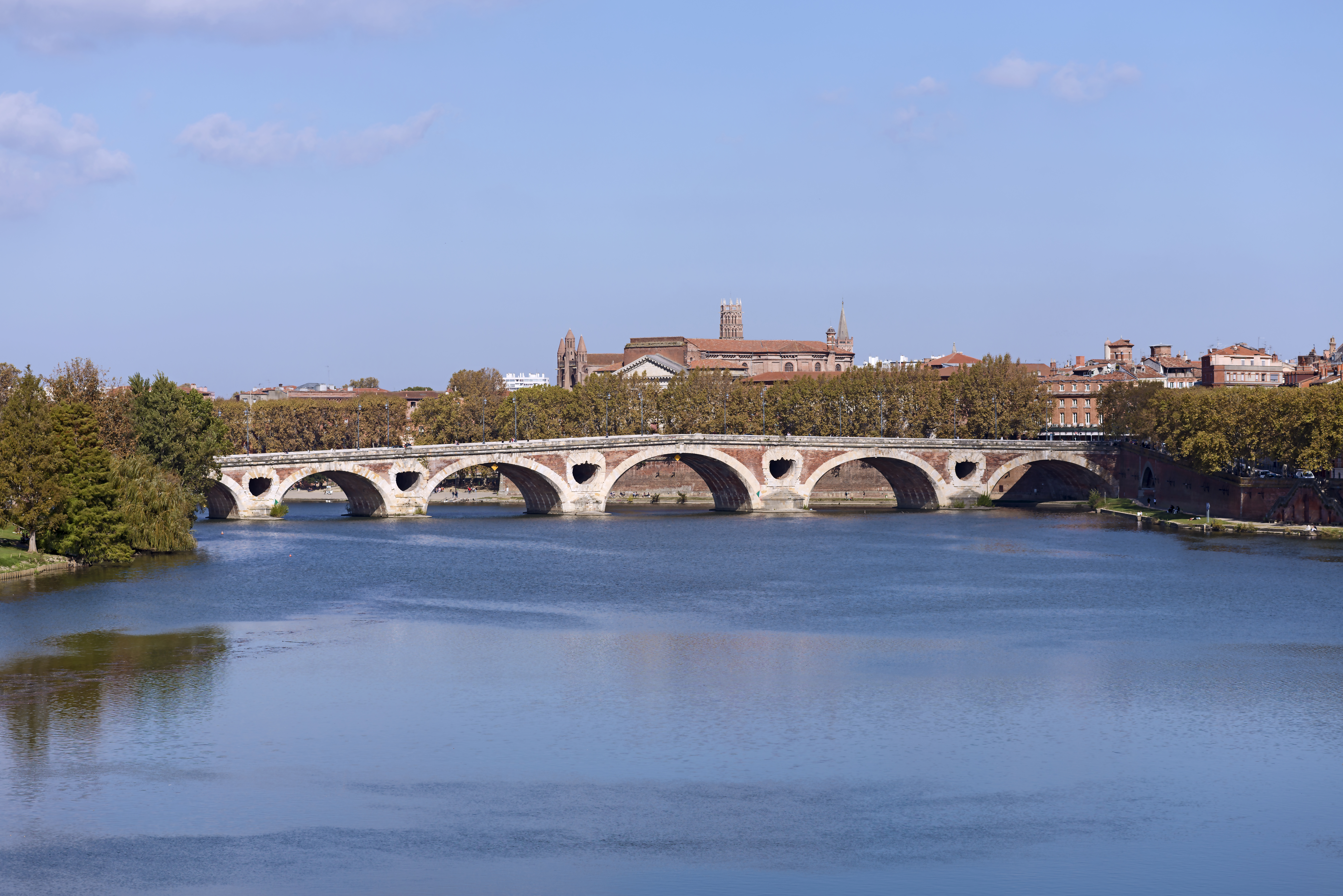 The Pont-Neuf seen from the Pont St-Michel- Architect Nicolas Bachelier